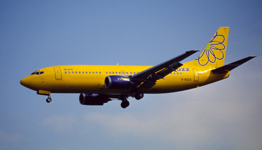 Boeing 737-300 G-BZZA in approach to Berlin SXF.